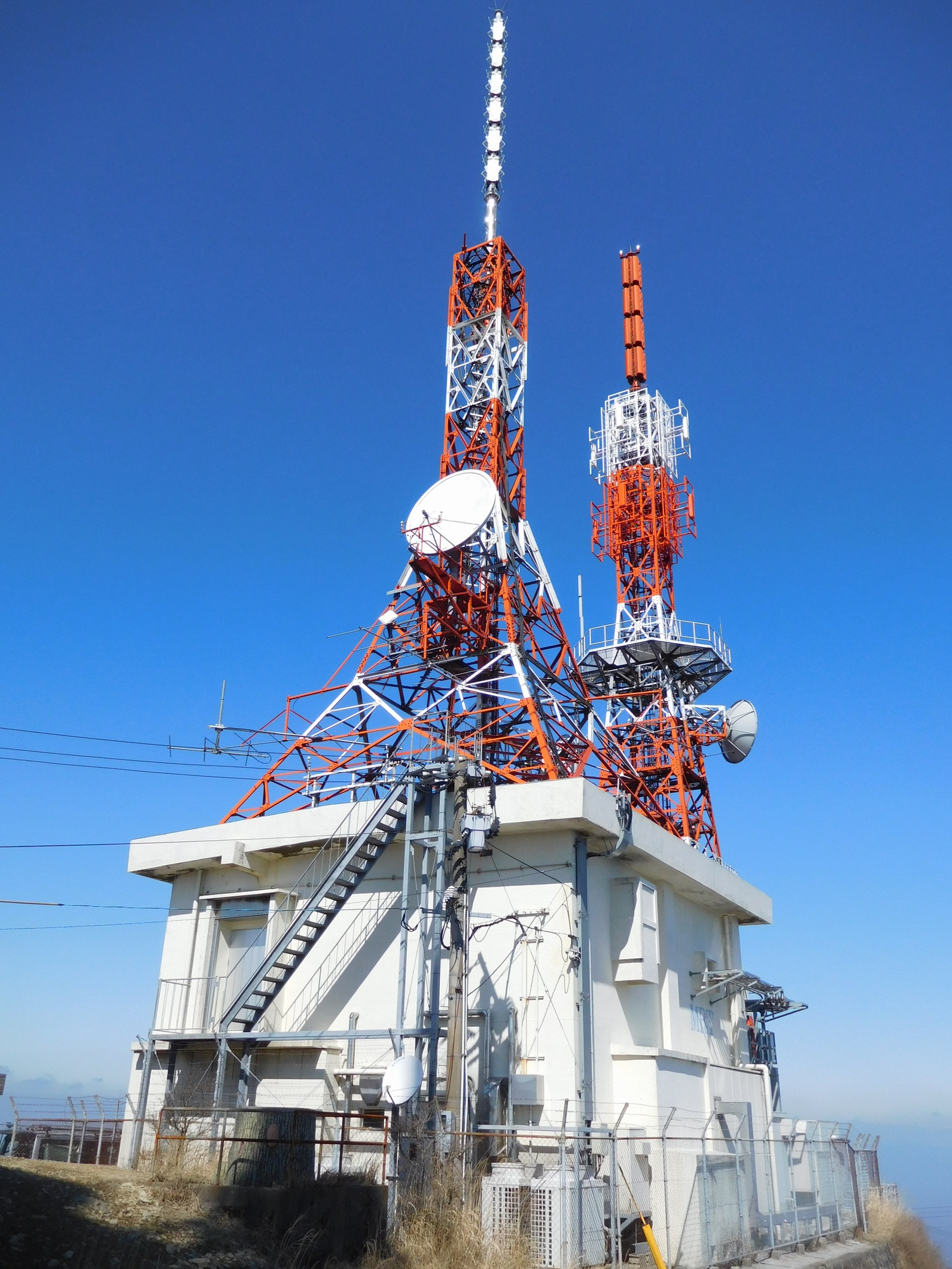 MRT Miyazaki Broadcasting (Digital TV/FM complement Station) Wanitsukayama Transmitting Tower and Japan Mobile Casting (NOTTV) Miyazaki Relay Station in 2016 (Miyazaki City, Japan)